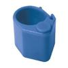 chipring